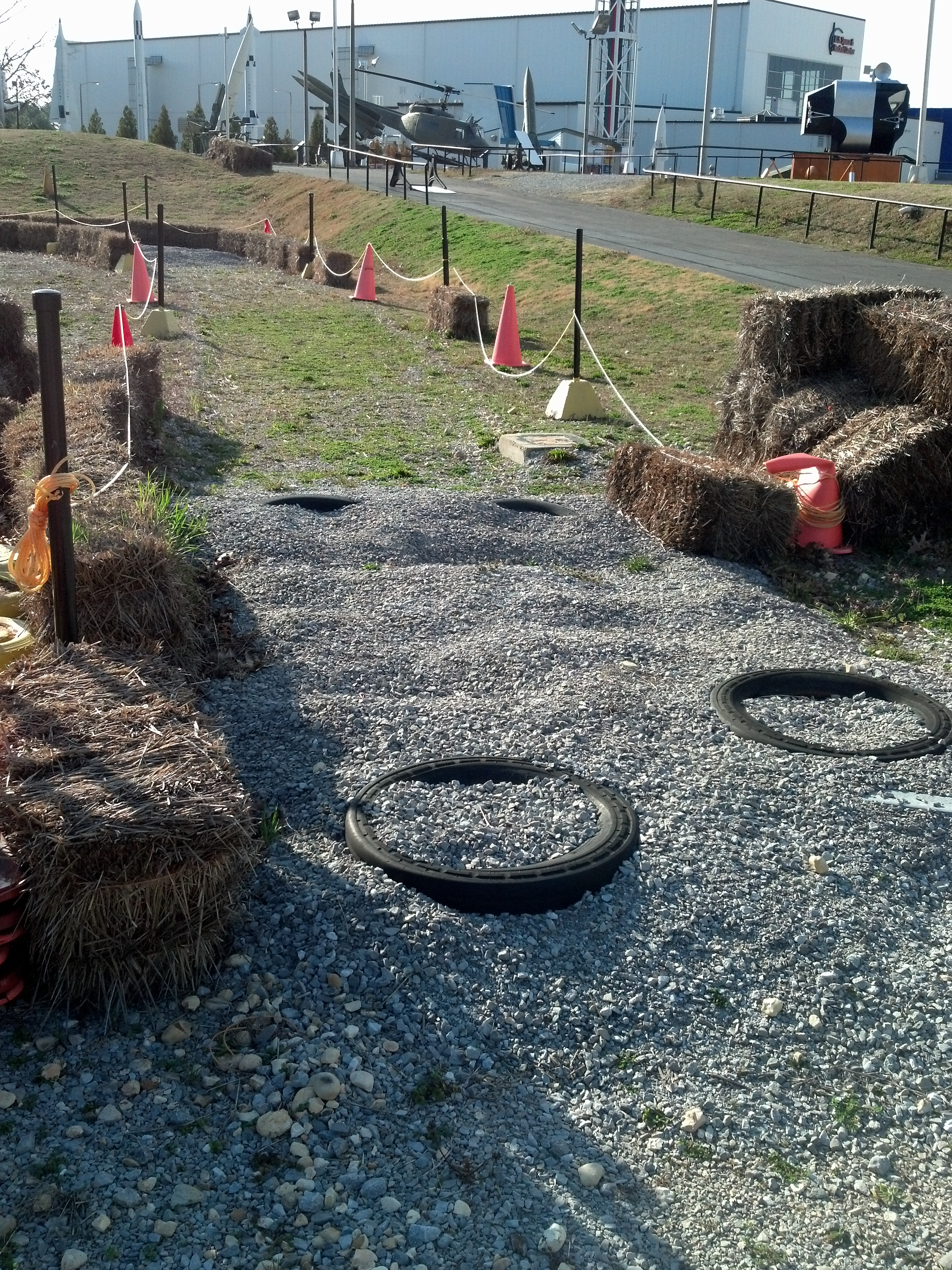 This image shows an obstacle as it is being prepared for the 2013 Great Moonbuggy Race. Tires form small craters and gravel substitutes for moon surface material. This obstacle is in the area where the S-IV-B stage of the Saturn V Dynamic Test Vehicle was on display from its arrival in 1969 until 2008.